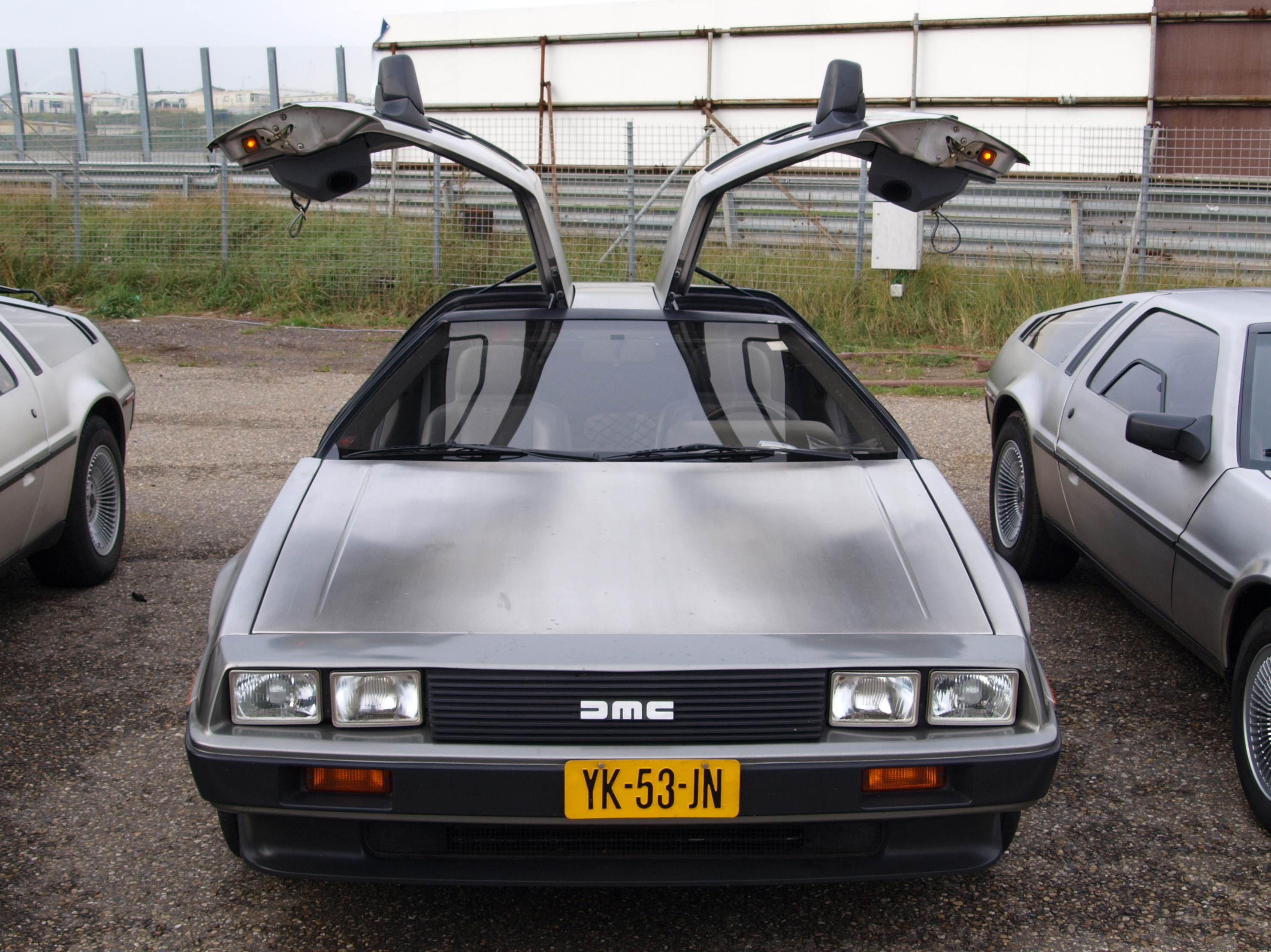 Photographed at the Nationaal Oldtimer Festival Zandvoort 2010, The Netherlands.